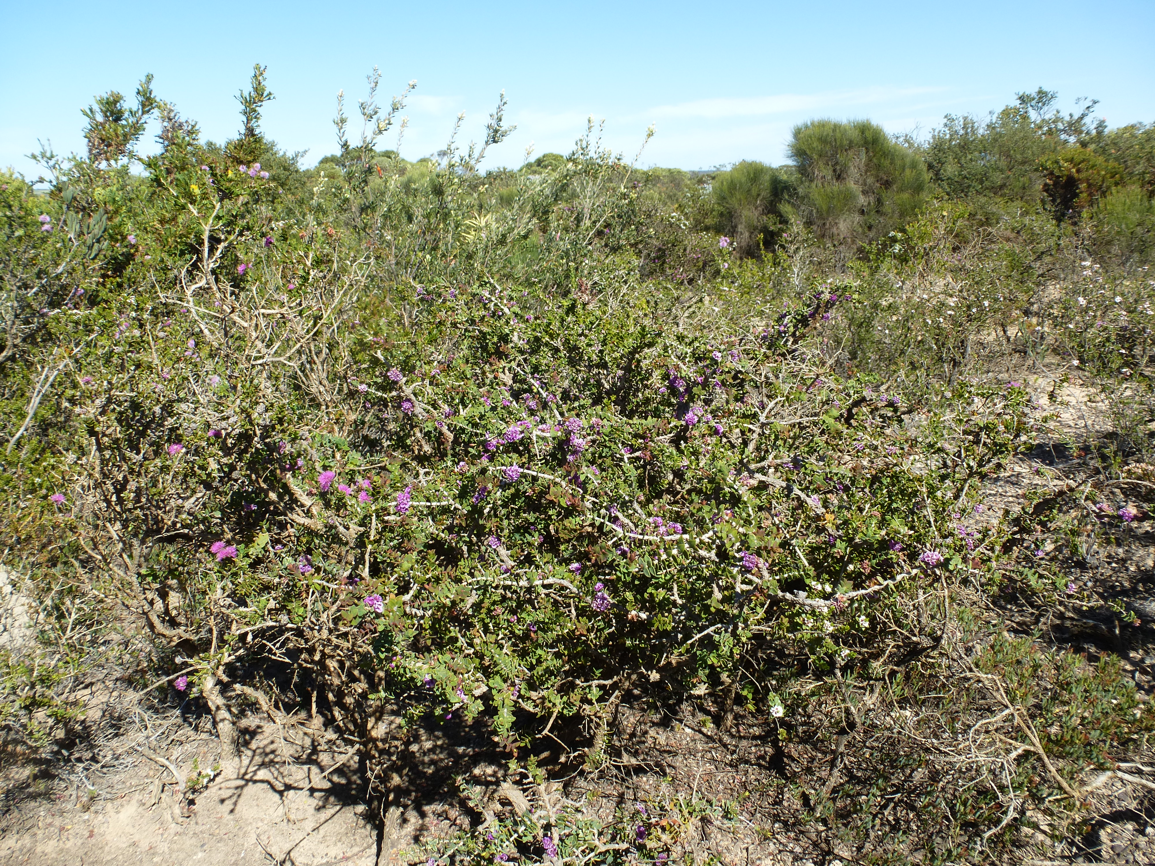 Melaleuca violacea growing at Cape Riche